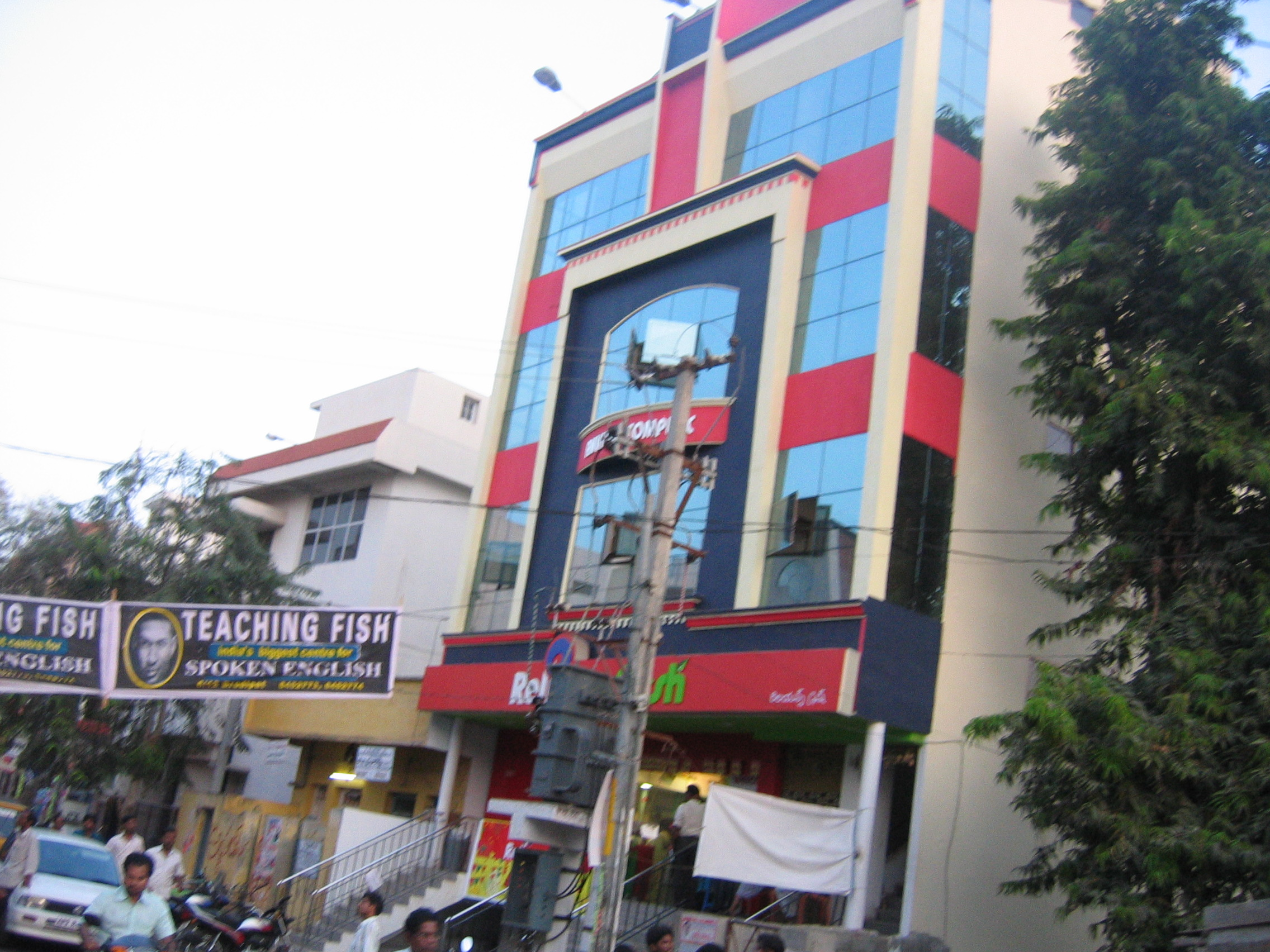 A Reliance Fresh store at Guntur City.